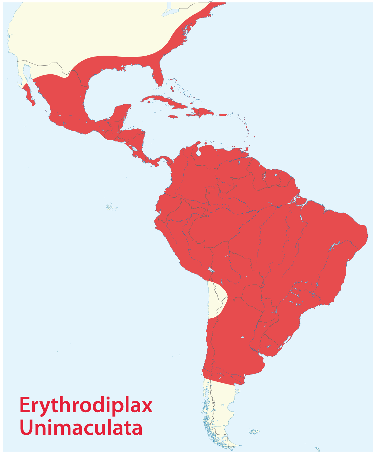 Distribution map of the Erythrodiplax Unimaculata group